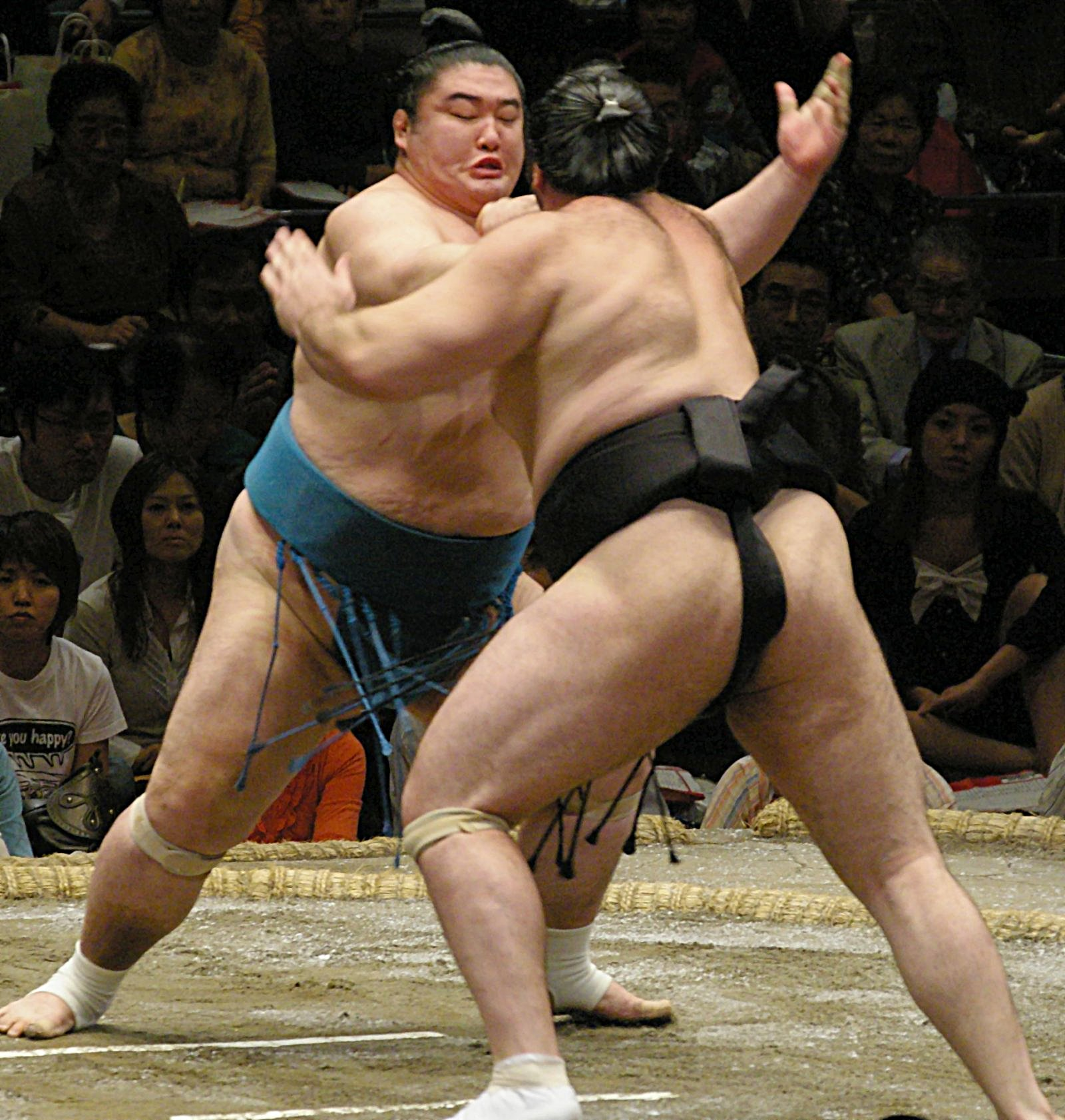 A sumo bout between dejima and kokkai, Tokyo, October 2007